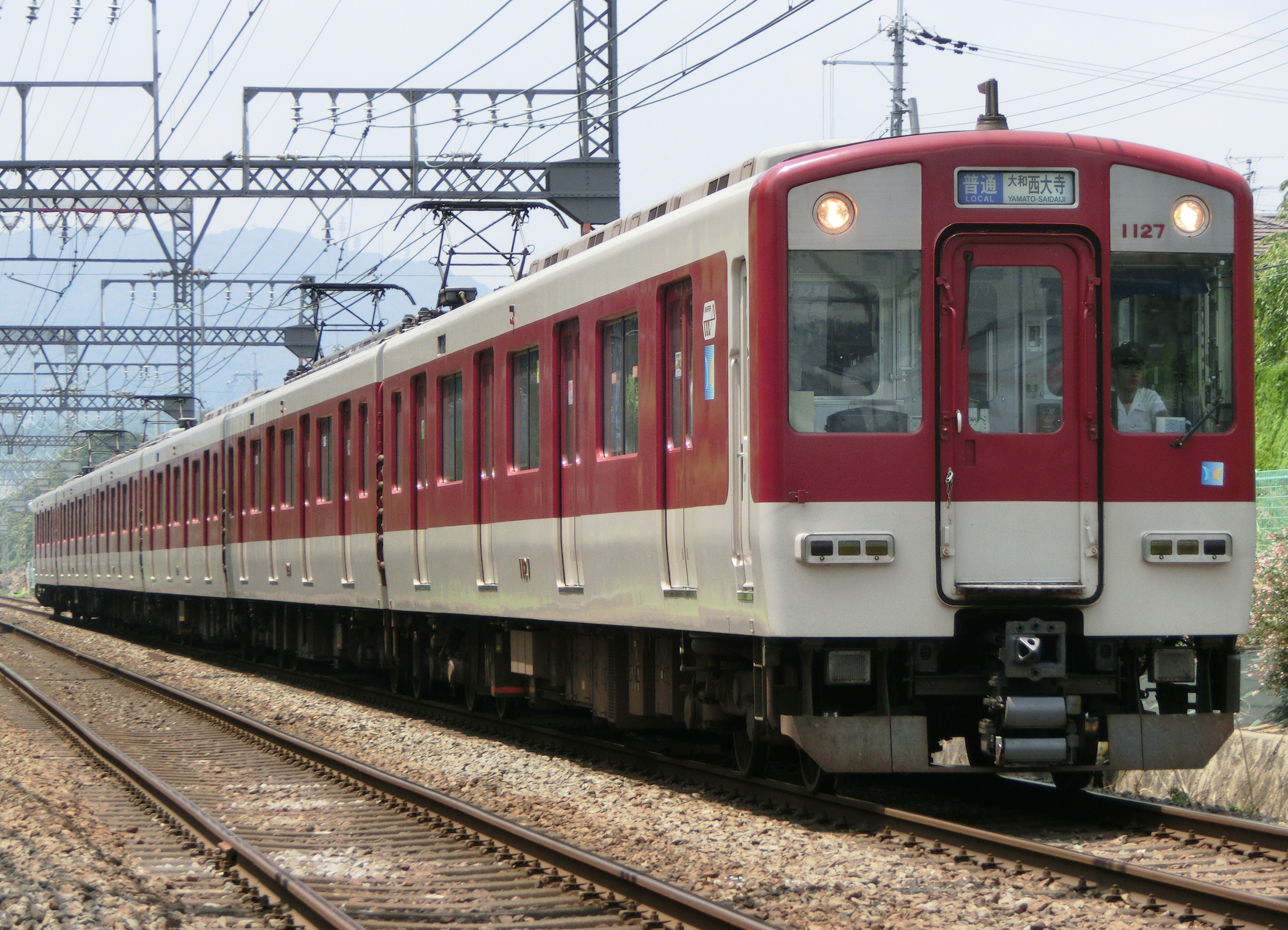 Kintetsu 1026 of through to Hanshin Railway. Photo taken between Tomio station and Gakuenmae Station.